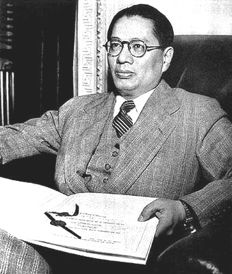 1945 TV Soong 1942年6月2日，宋子文在美国签署租界法案后，手持法案留影